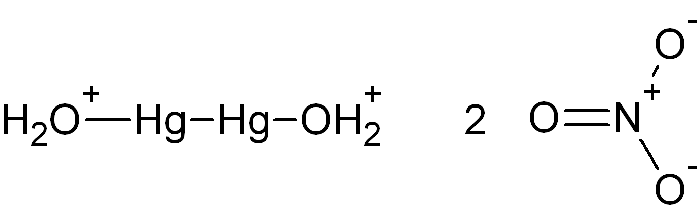 mercury(I)-nitrate dihydrate